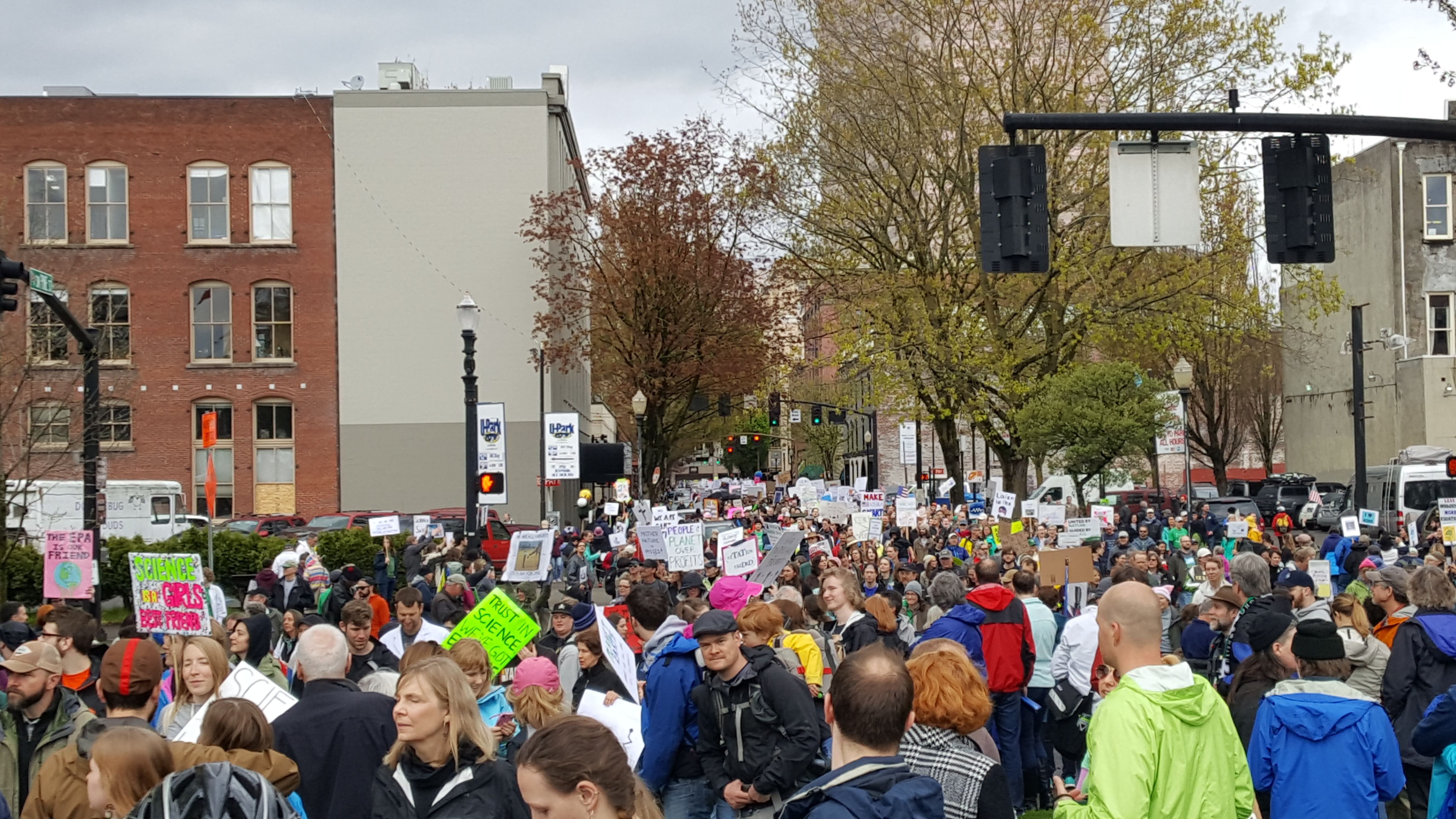 March for Science, PDX, 2017